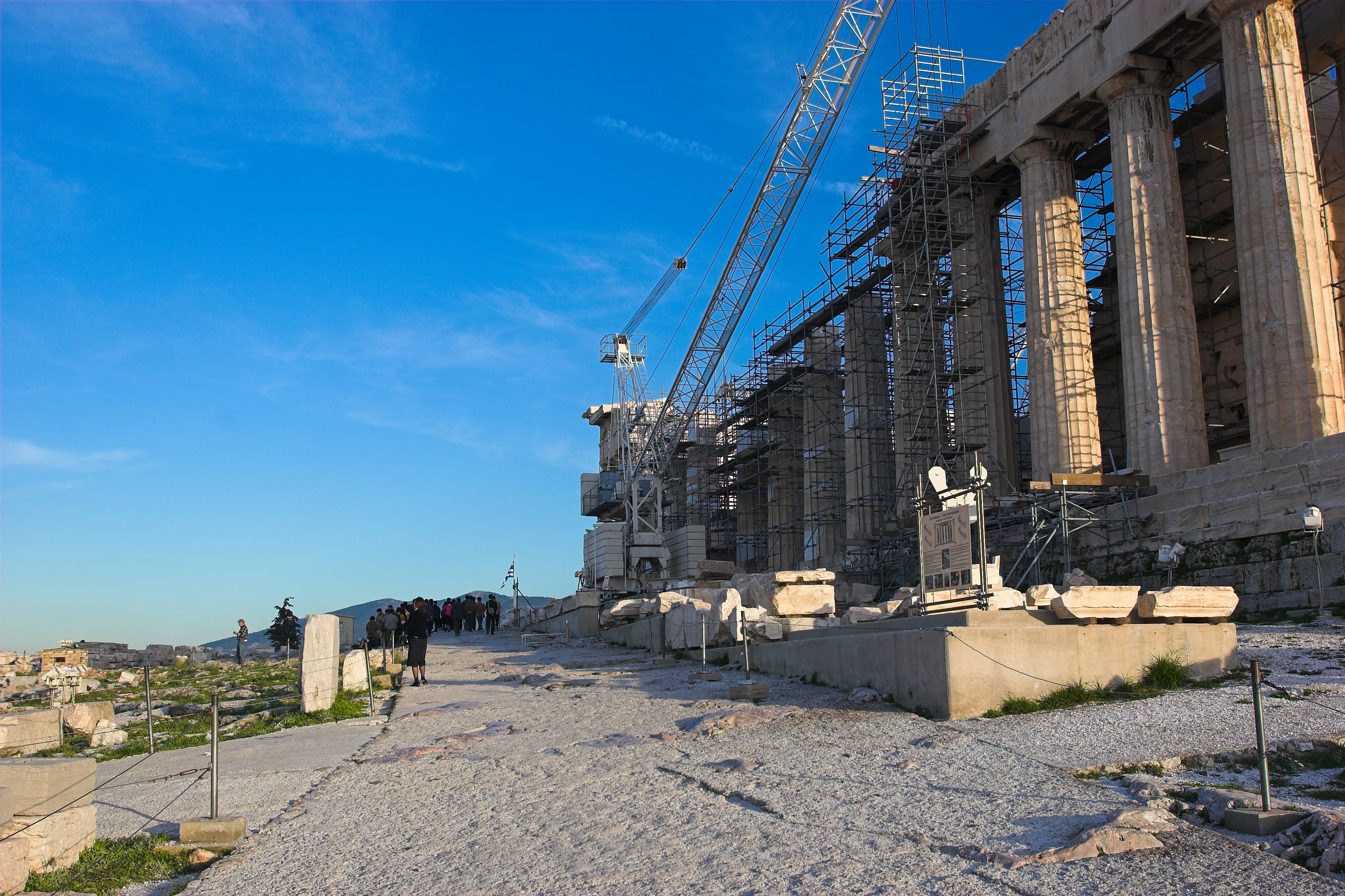 Restoration at Parthenon.